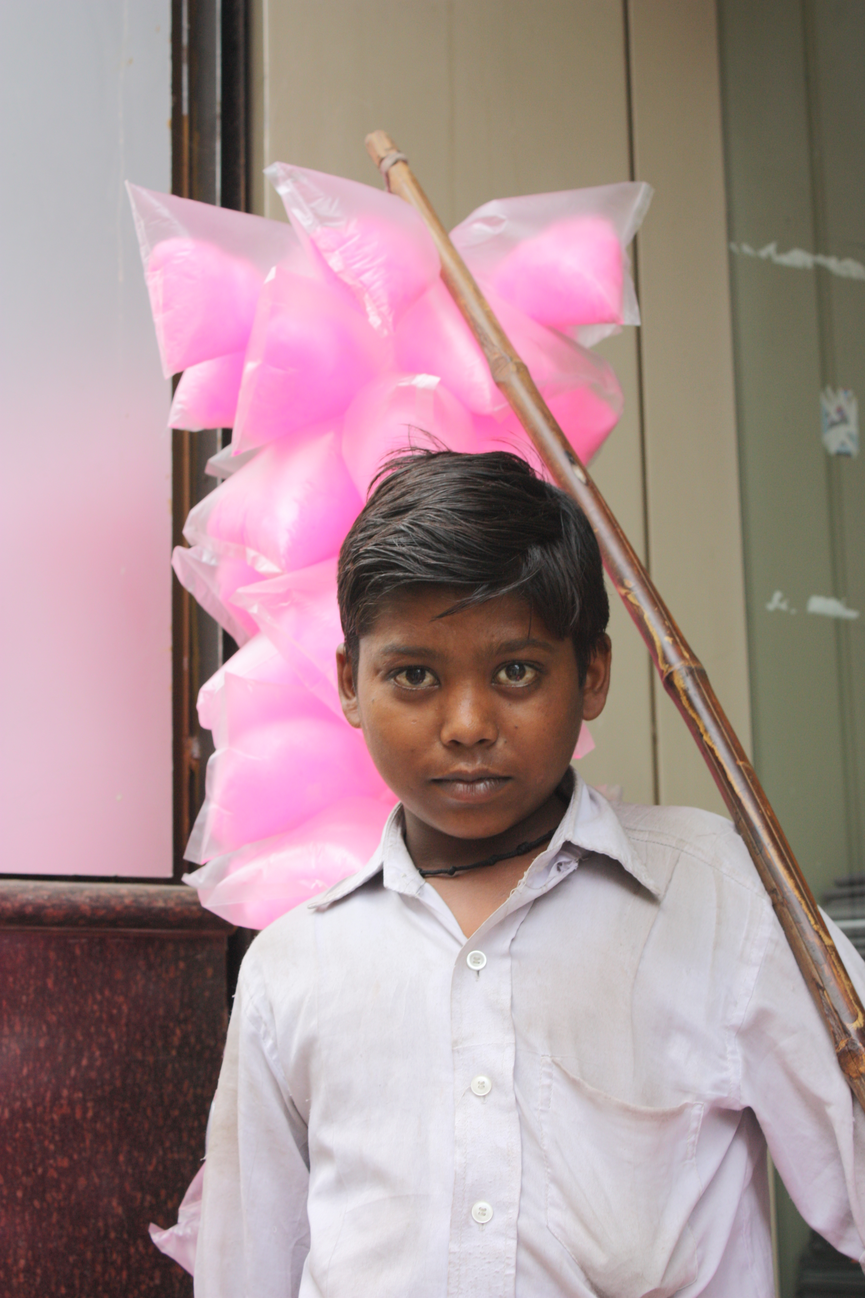 Trichy, young street vendor